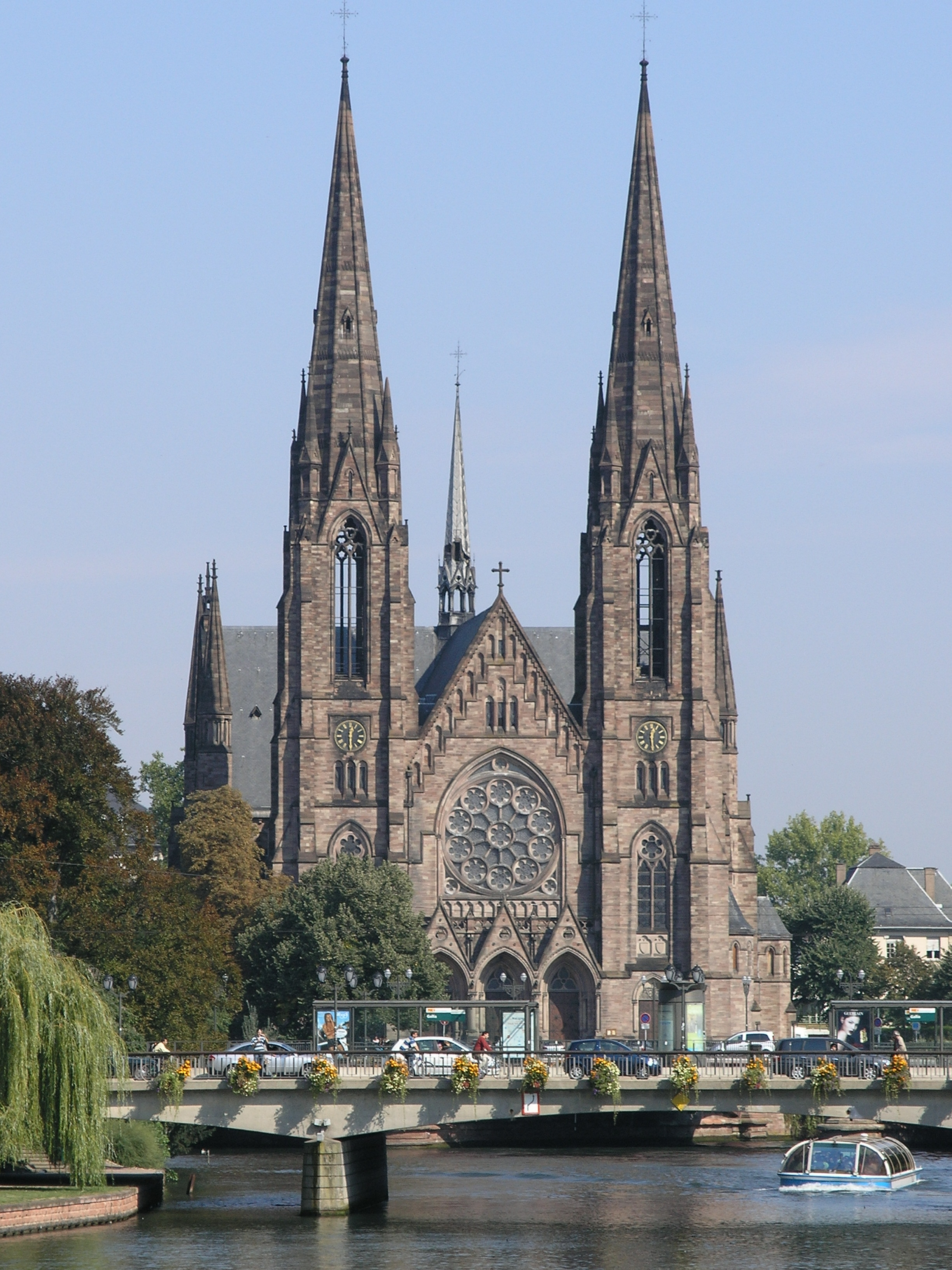 St. Paul's Church (Strasbourg)